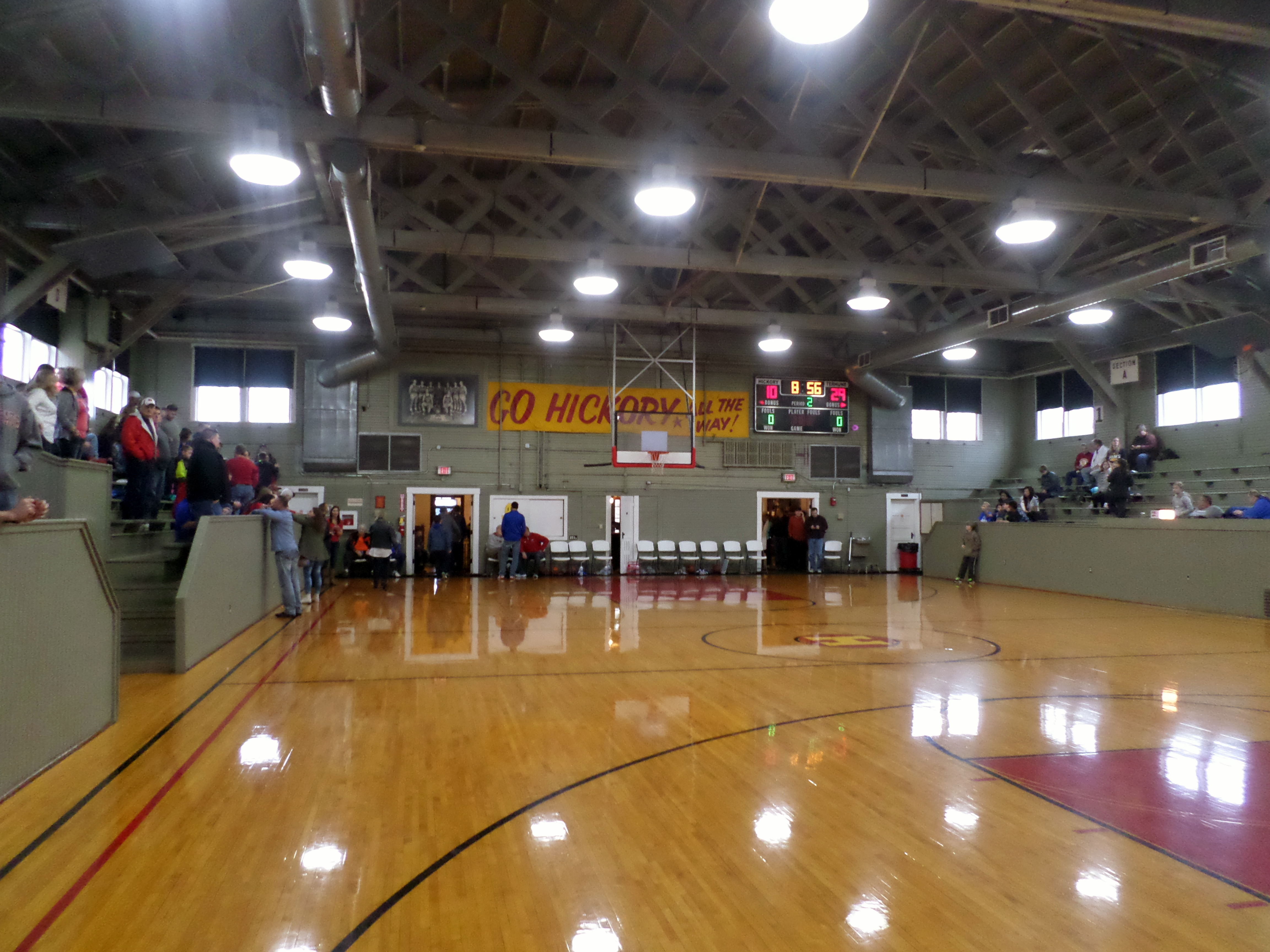 Interior of Hoosier Gym in January, 2017. The gym remains decorated in the same manner as it was for the 1986 movie Hoosiers. Note the "Go Hickory" banner on the wall. Also note the team photo from the movie to the left of the banner.